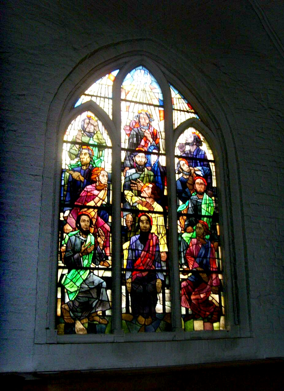 The Pentecost window by Käte Lassen (1880-1956).